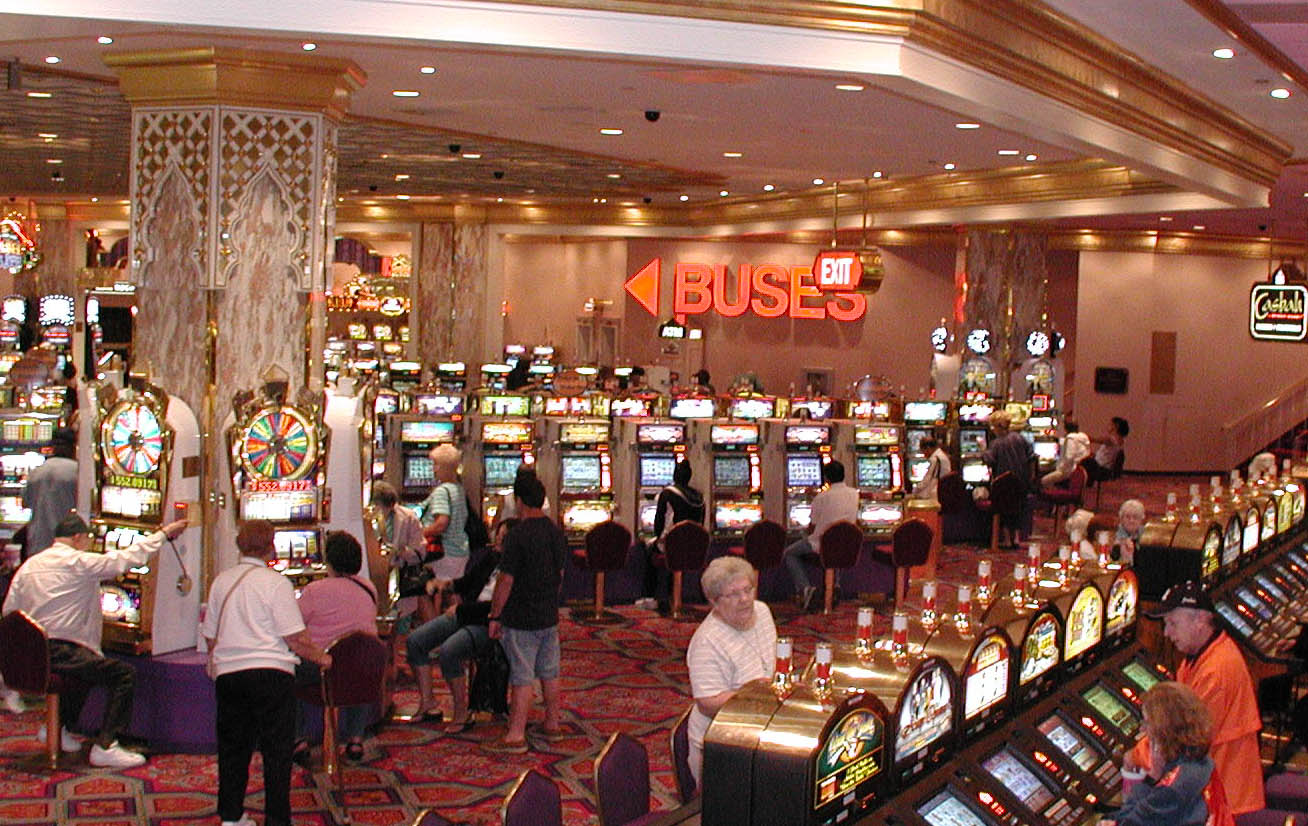 Slot machines in the Trump Taj Mahal Taken by Raul654 on August 24, 2004. Released under the GFDL